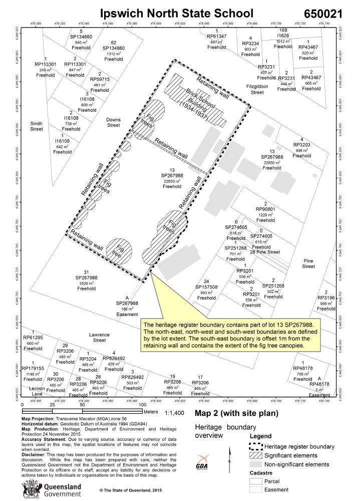 650021 Ipswich North State School - map 2 (2016)